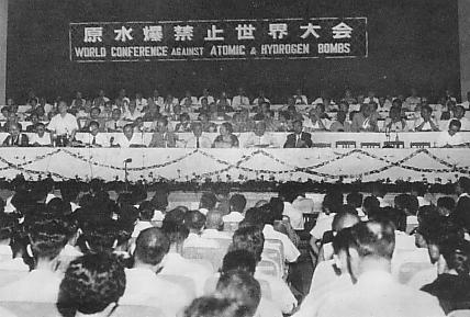 The first World Conference against Atomic & Hydrogen Bombs